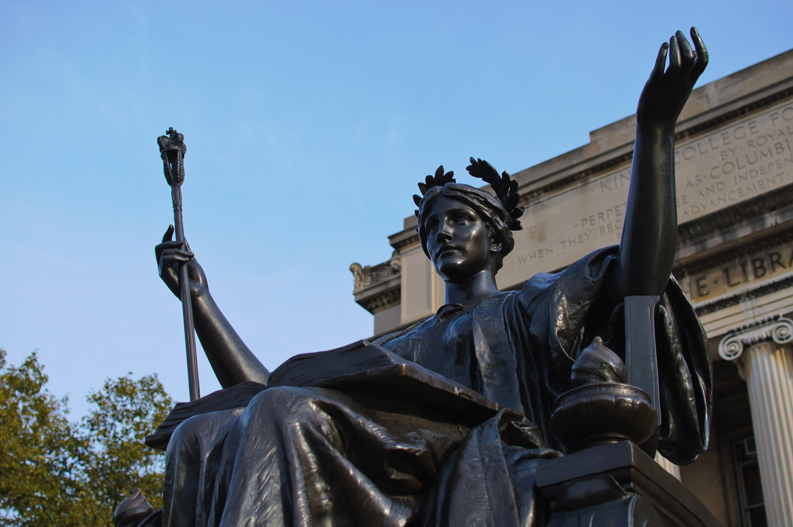 At Columbia, the name "Alma Mater" refers to this statue in front of Low Library, and many legends are associated with it. The Low Library, in the dead center of the campus, is today not an academic library, but an administration building. For me during this visit of New York City, the Alma Mater was my matron saint of photography, with her pedestal serving as a great makeshift tripod during my night photo sessions the previous evening. I was finding the Columbia campus to be very photogenic, something I had never noticed despite spending years here in the 1990s. Columbia University is located in the Morningside Heights neighborhood of Manhattan, bordering Harlem to the north and east and Upper West Side to the south. The McKim, Meade, and White architectural team designed the current campus in the late 1890s, replacing older campuses further downtown. Columbia University is one of the eight members of the prestigious Ivy League; the other seven, all in the Northeastern US, are Dartmouth, Harvard, Brown, Yale, Cornell, Princeton, and Pennsylvania.